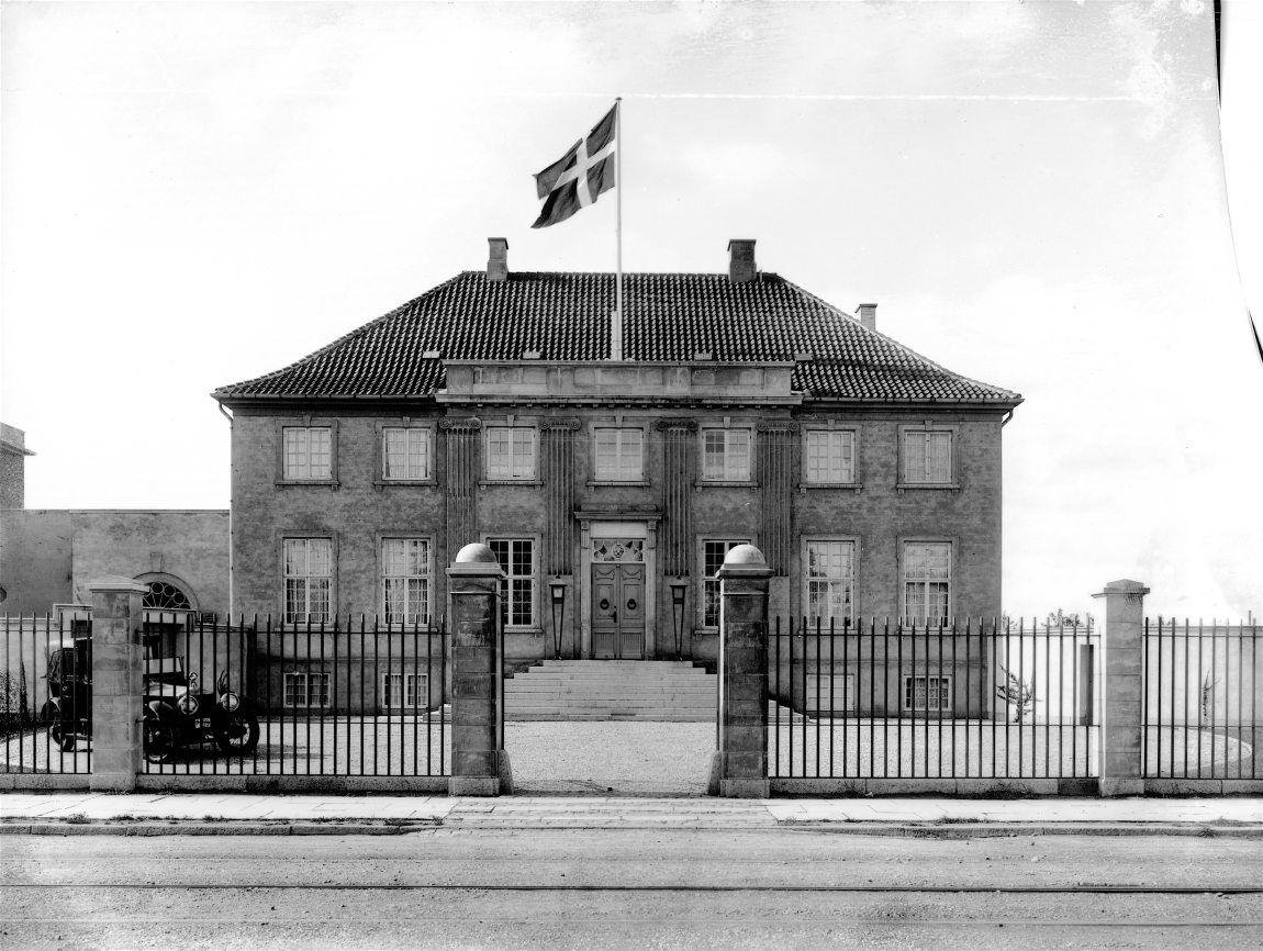 Vintner Poul Just's mansion at Østre Allé 31 in Copenhagen, Denmark